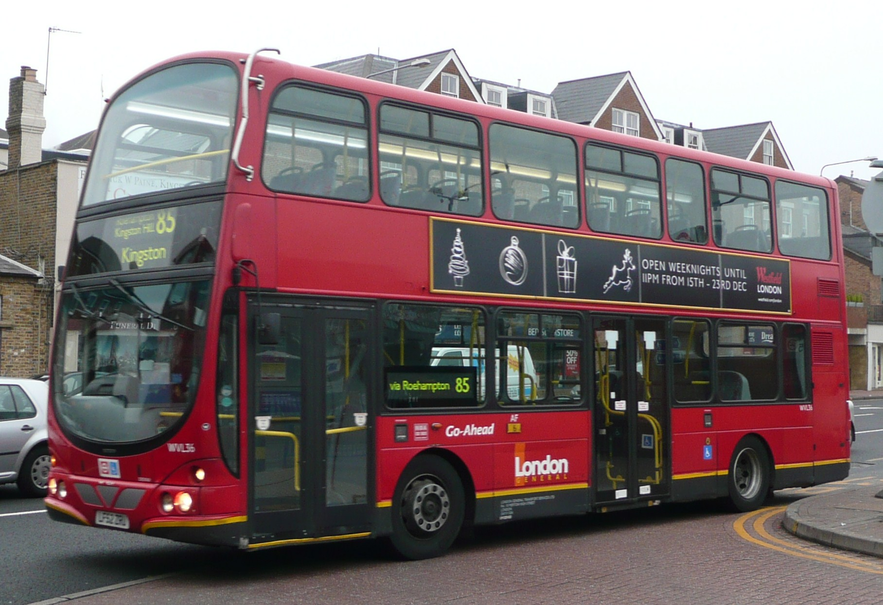 London General's WVL36 (LF52 ZRU), a Volvo B7TL/Wright Eclipse Gemini in Kingston on route 85.